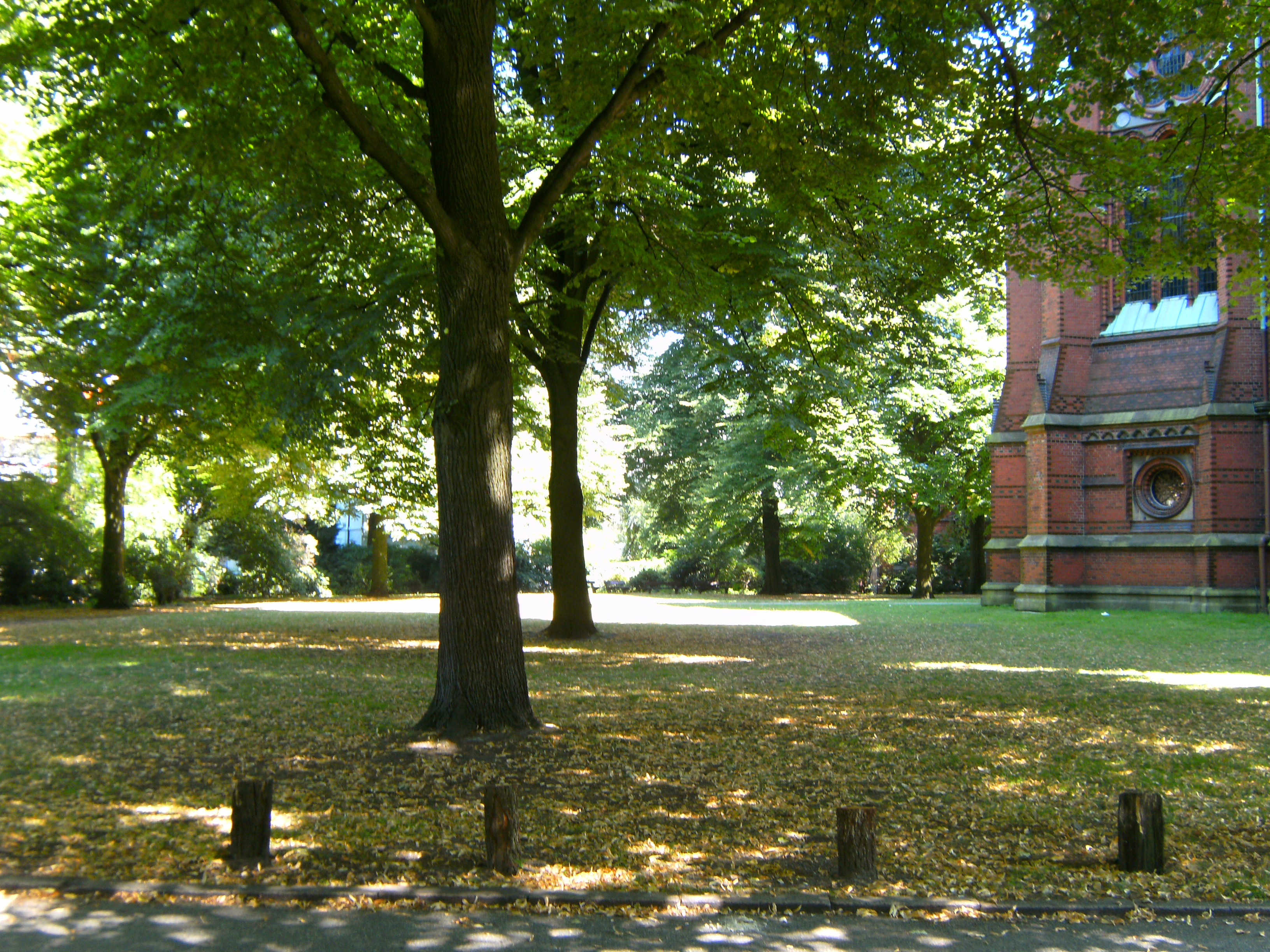 Hamburg-Uhlenhorst, Germany, Lutheran church St. Gertrud: churchyard, now public green.